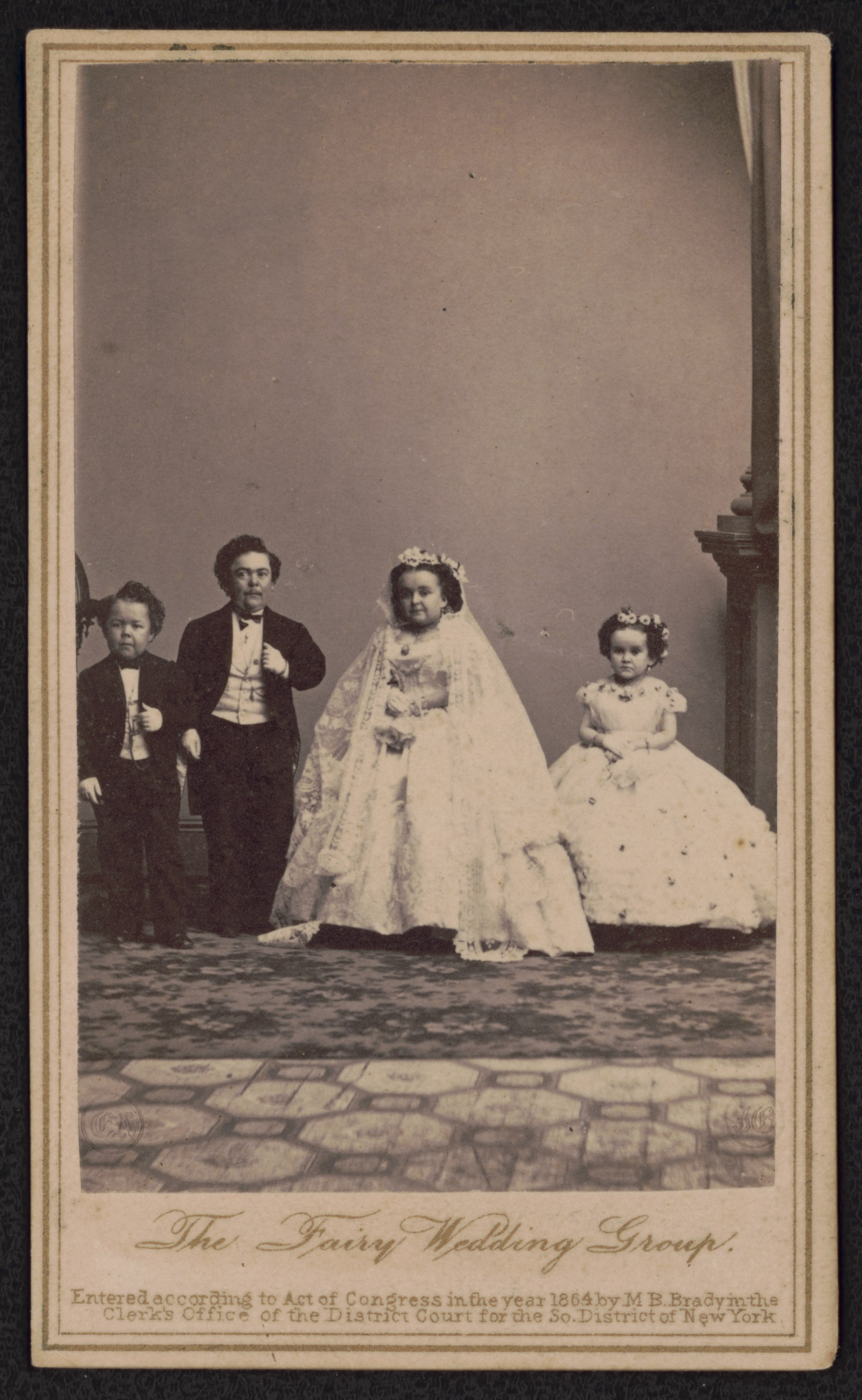 Title: The Fairy Wedding group / From photographic negative in Brady's National Portrait Gallery, from photographic negative by Brady. Abstract/medium: 1 photograph : albumen print on card mount ; mount 11 x 7 cm (carte de visite format)